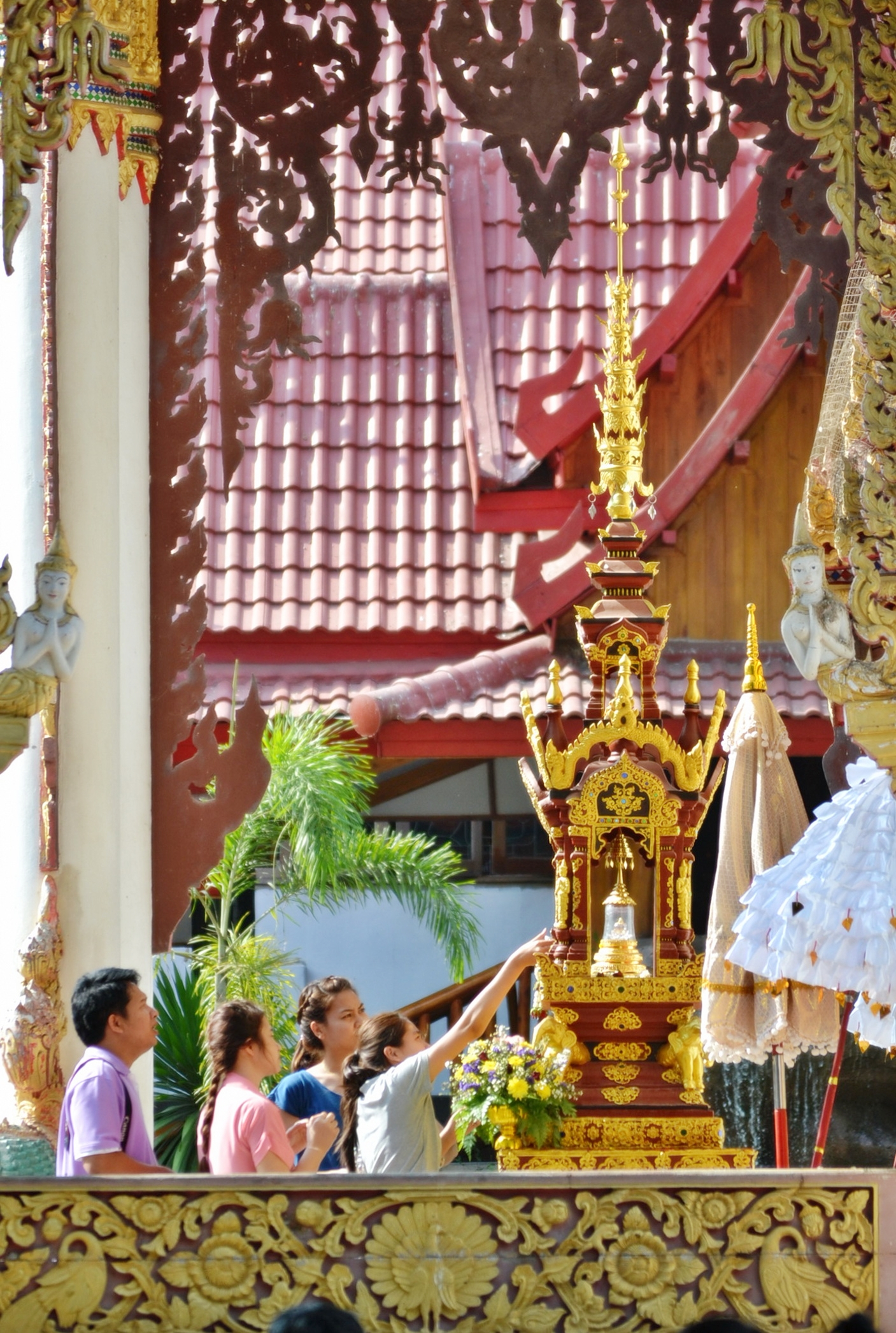 Sprinkle water onto a Buddha Relics in Songkran FestivalLocation: Wat Khung Taphao Ban Khung Taphao, Khung Taphao subdistrict, Mueang Uttaradit, Uttaradit Province, Thailand.